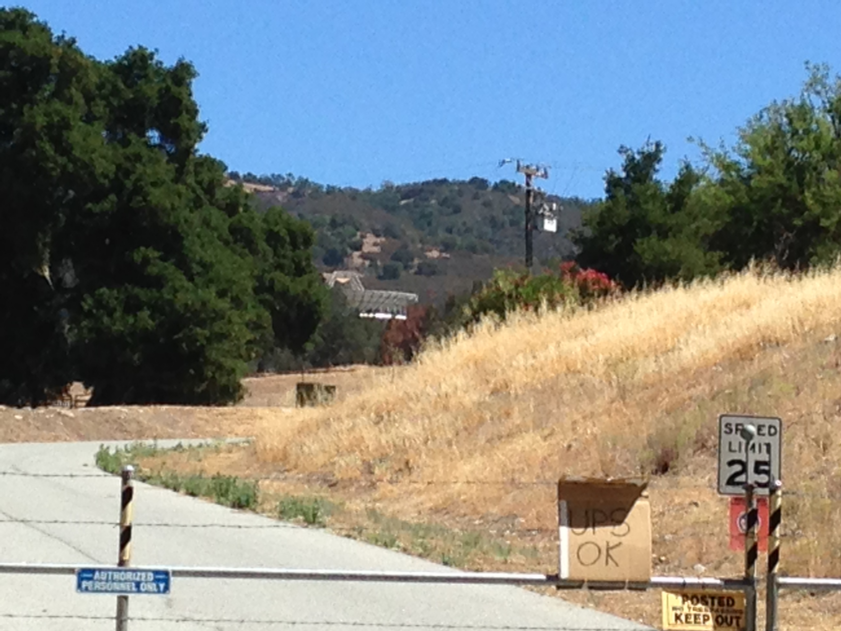 Photo made from outside the gate of the Jamesburg antenna.